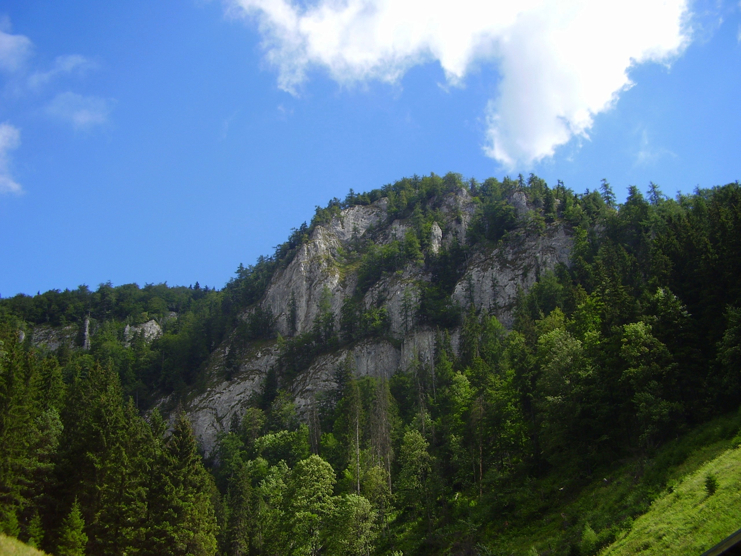 Havrania skala in Slovak Paradise